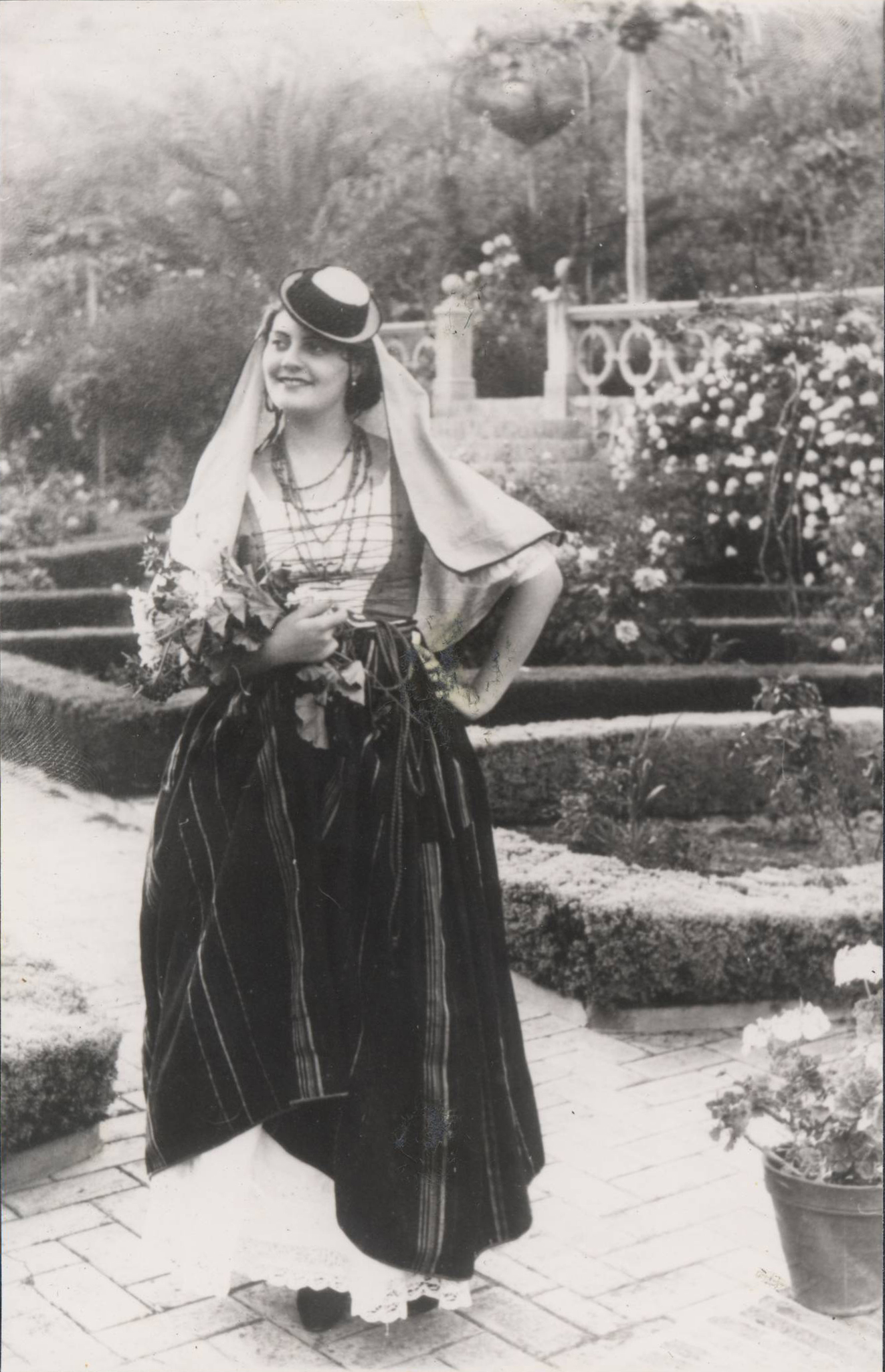 Alicia Navarro Cambronero with a traditional canary dress